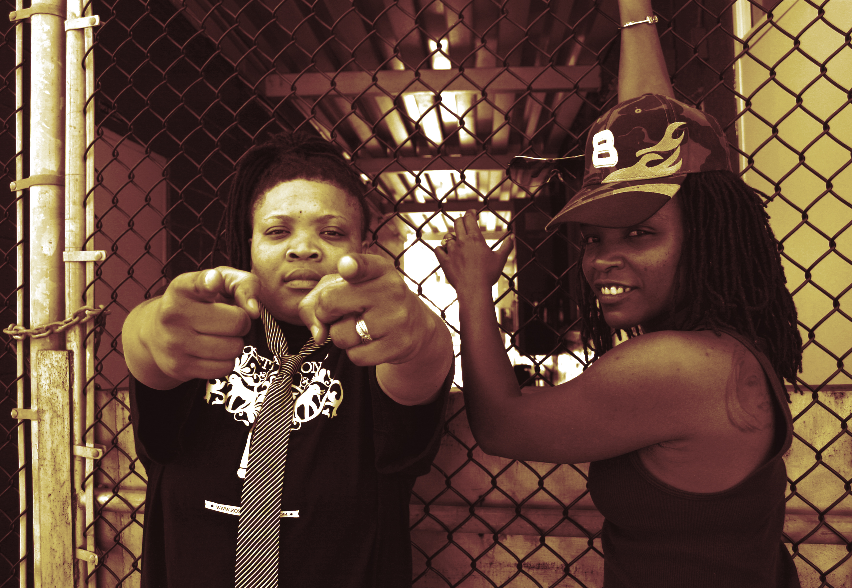 Yo Majesty - Music group from Tampa, Florida